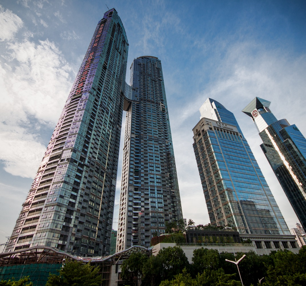 East Pacific Center Towers, Shenzhen